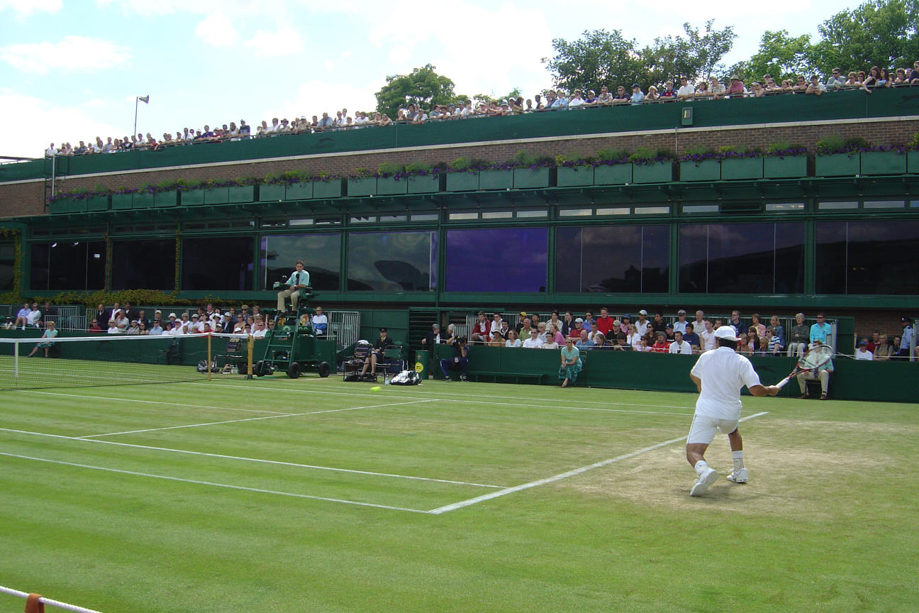 Sebastien Grosjean, 10th seed, in his 3rd round match against Jan-Michael Gambill. Photo taken looking away from court no.1 onto court 18 on the 1st Friday of the 2004 Championships. ricjl 00:38, 2 Jul 2004 (UTC)